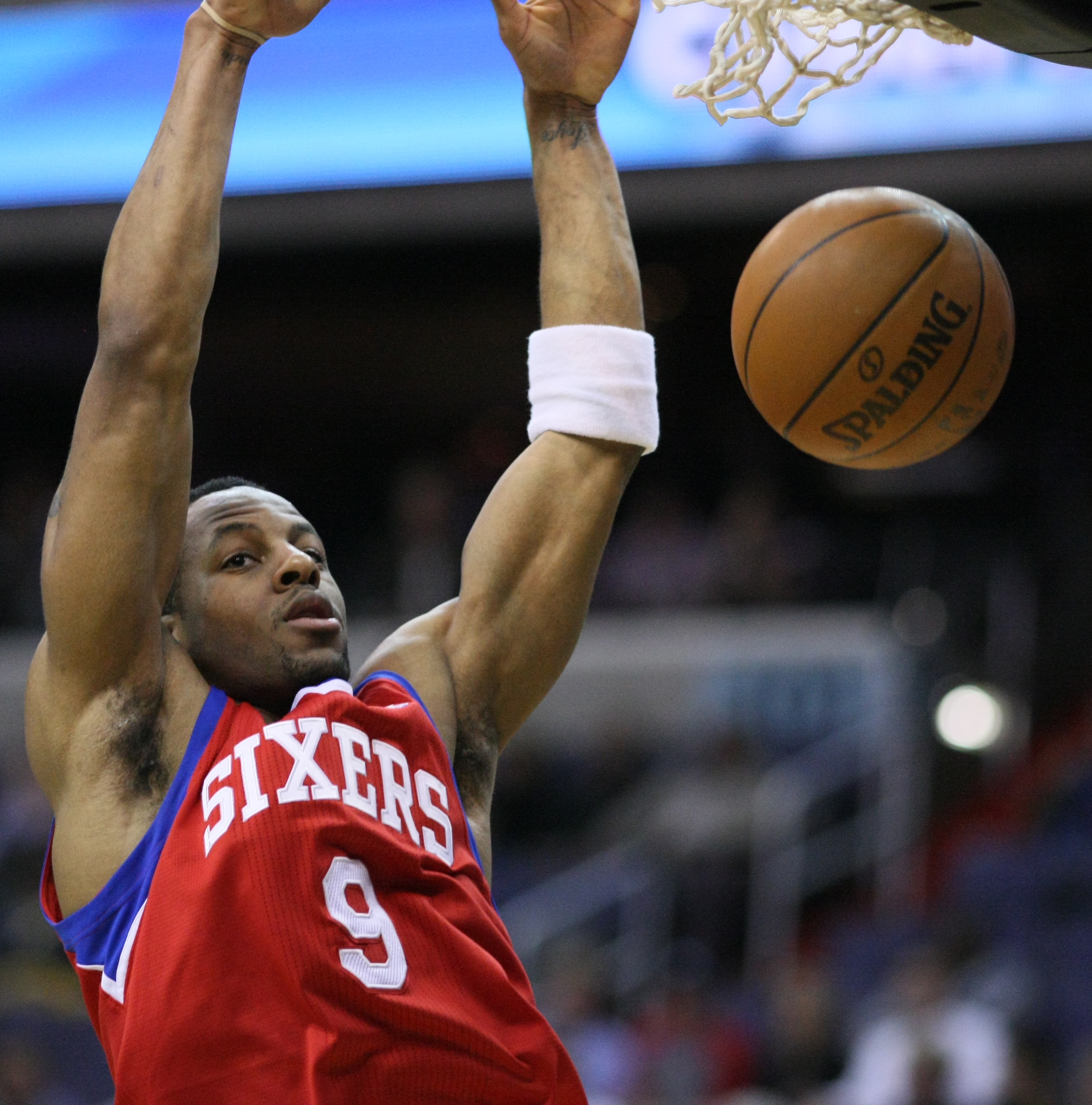 Washington Wizards v/s Philadelphia 76ers November 23, 2010